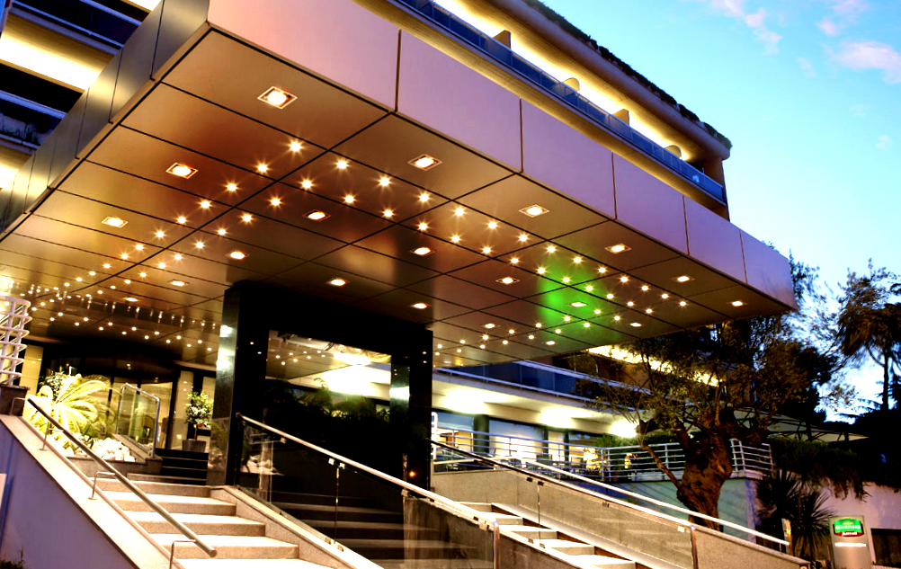 courtyard marriott central park rome